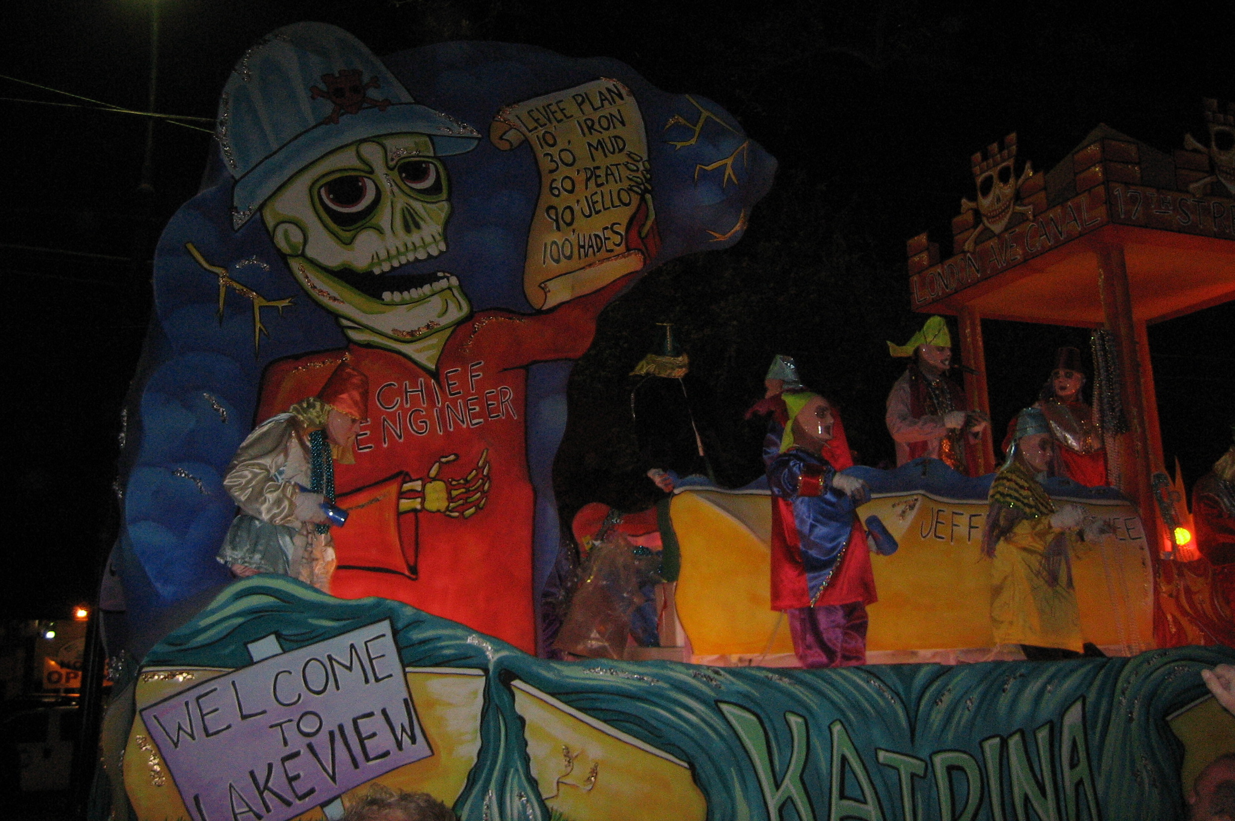 New Orleans after Hurricane Katrina: Float in the Krewe of Chaos Mardi Gras parade satires "U.S. Army Corpse of Engineers" poorly designed floodwalls, which failed resulting in flooding of most of the city and many deaths. Photo by Infrogmation, Carnival 2006